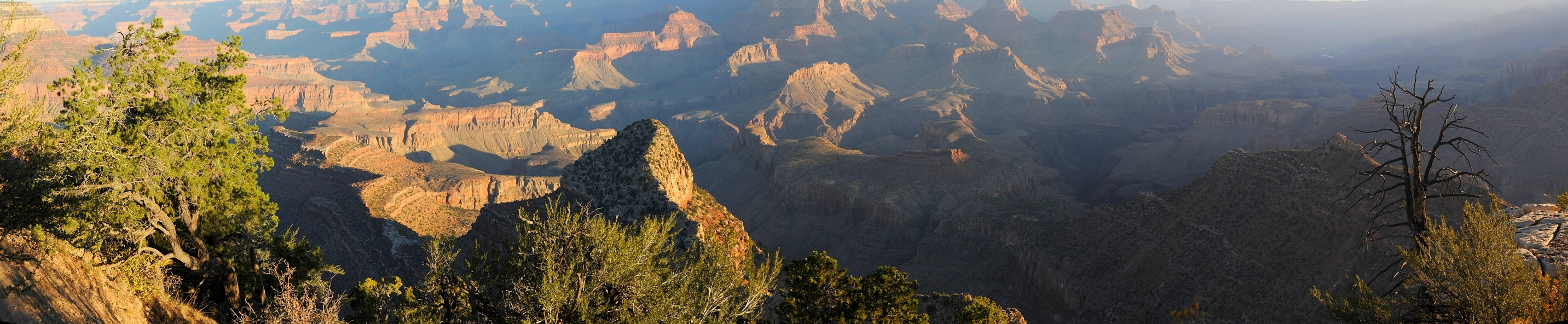 View on the Grand Canyon from Hopi Point